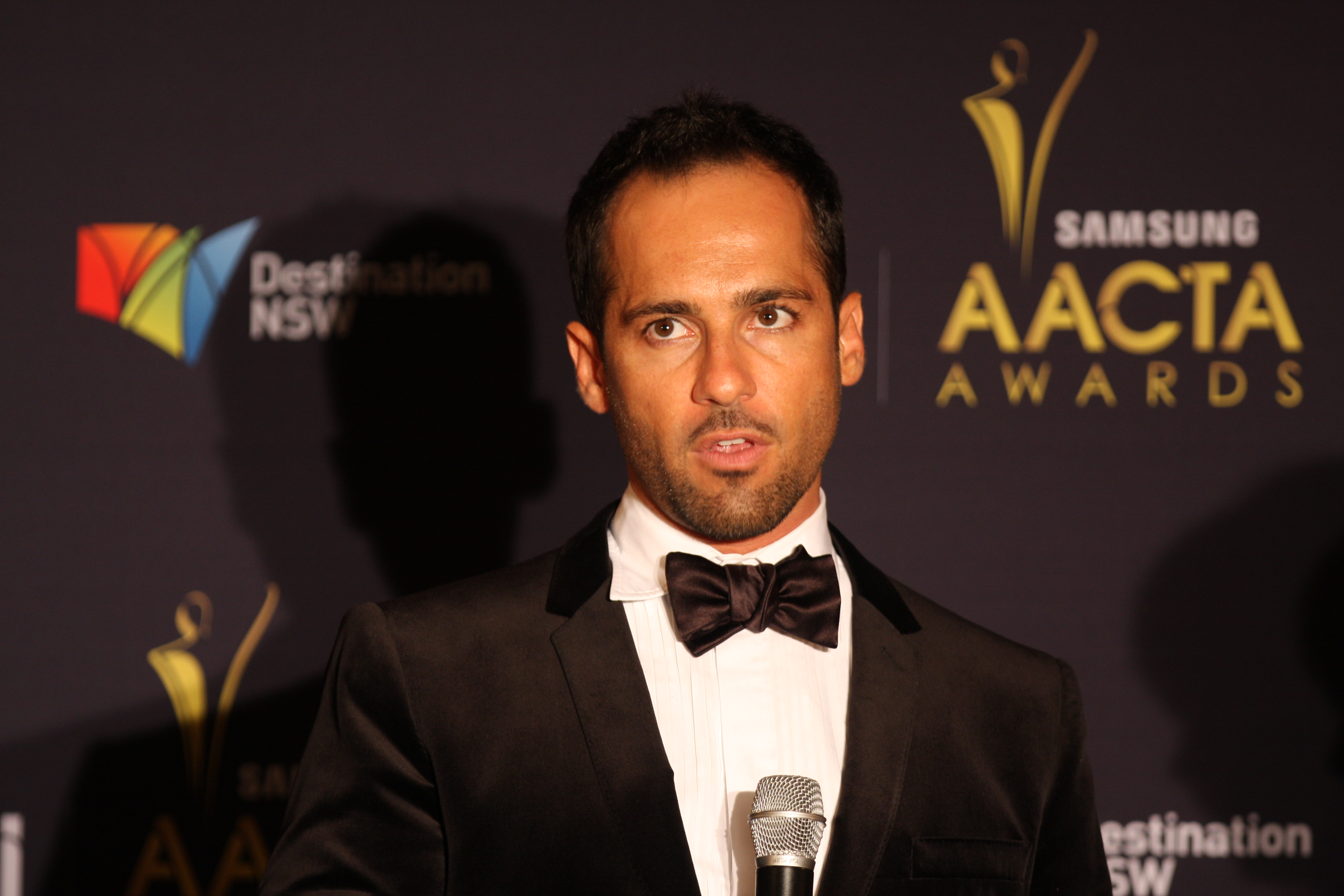 Alex Dimitriades at the AACTA Awards 2012